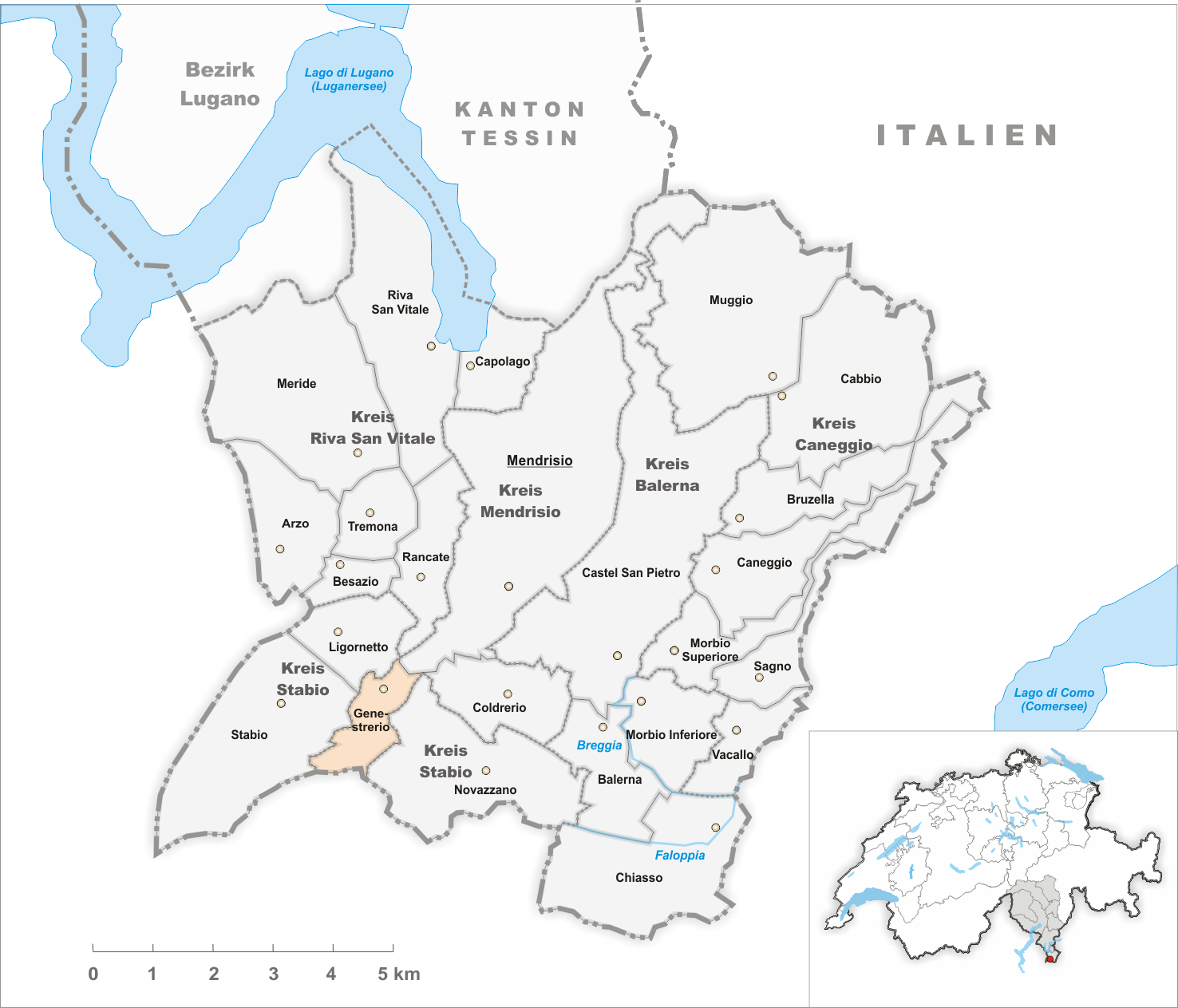 Municipality Genestrerio